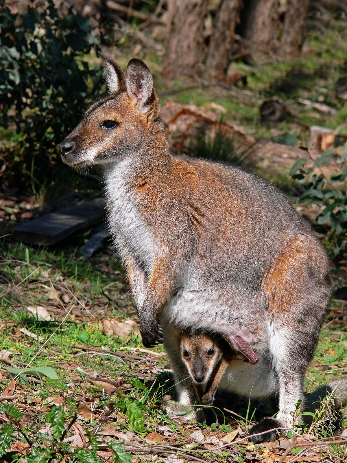 A Red-necked wallaby mother, Macropus rufogriseus, with a young joey in her pouch